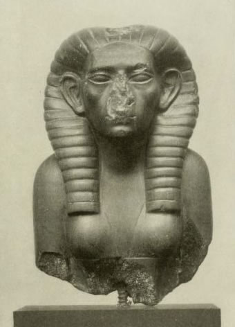 Head of queen Neferusobek, Berlin Egyptian Museum 14475 (lost in WWII)